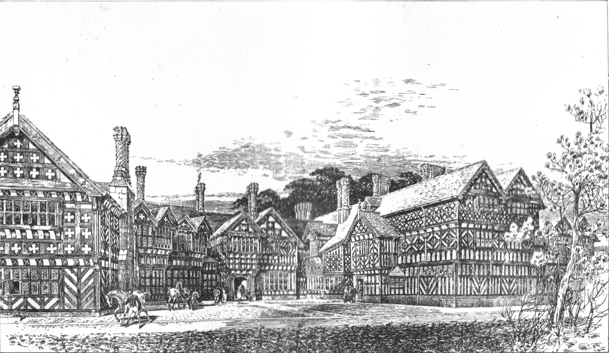 Fig. 17 Bidston Court